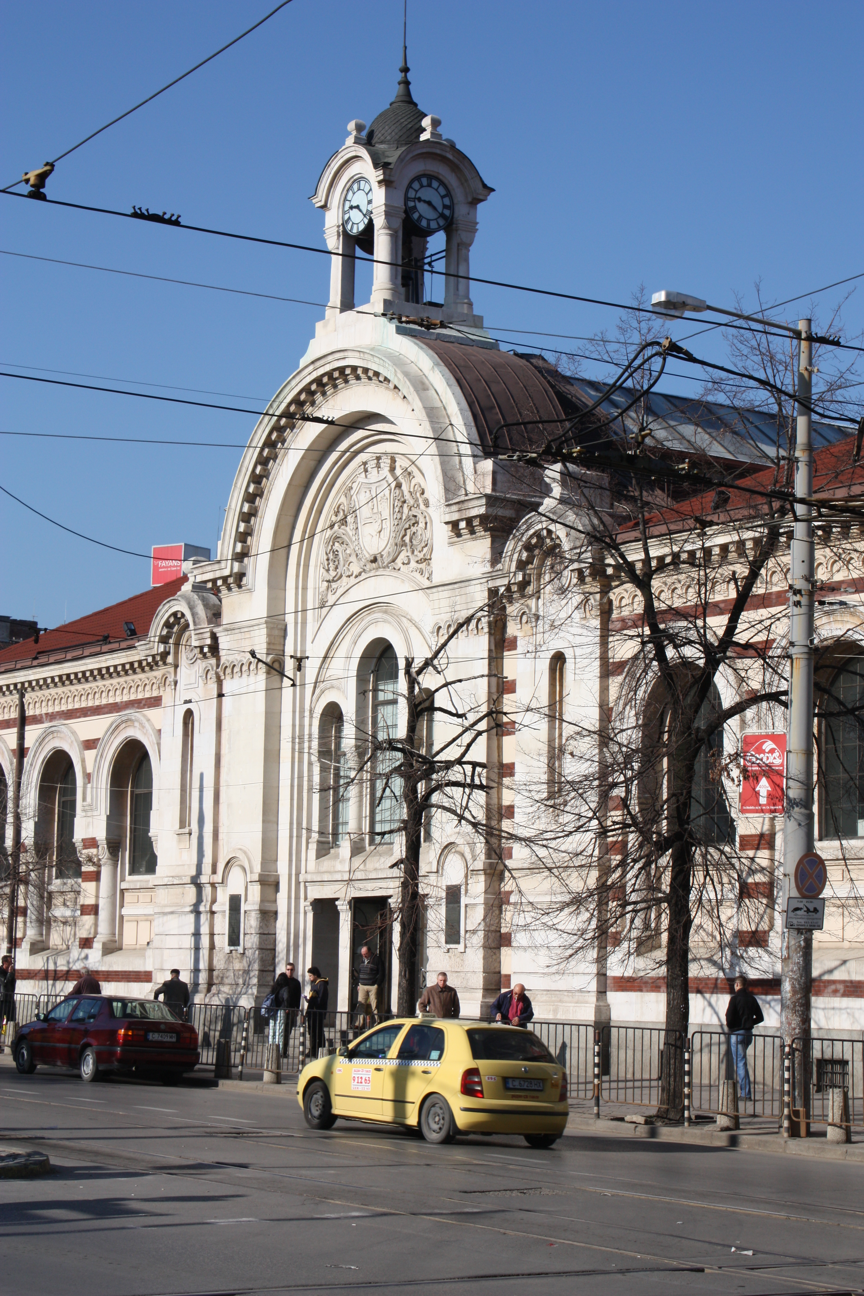 Zentralmarkthalle Sofia, Chalite, Sofia, Bulgaria